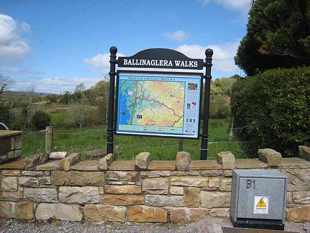 Ballinaglera Walks, near to Ballinaglera, Kilgarriff, Drumnafinnila, Fahy and Greaghnafarna, Leitrim, Ireland. A number of signed walks have been established throughout county Leitrim. Not all on footpaths and tracks - many follow very quiet tarmac lanes.